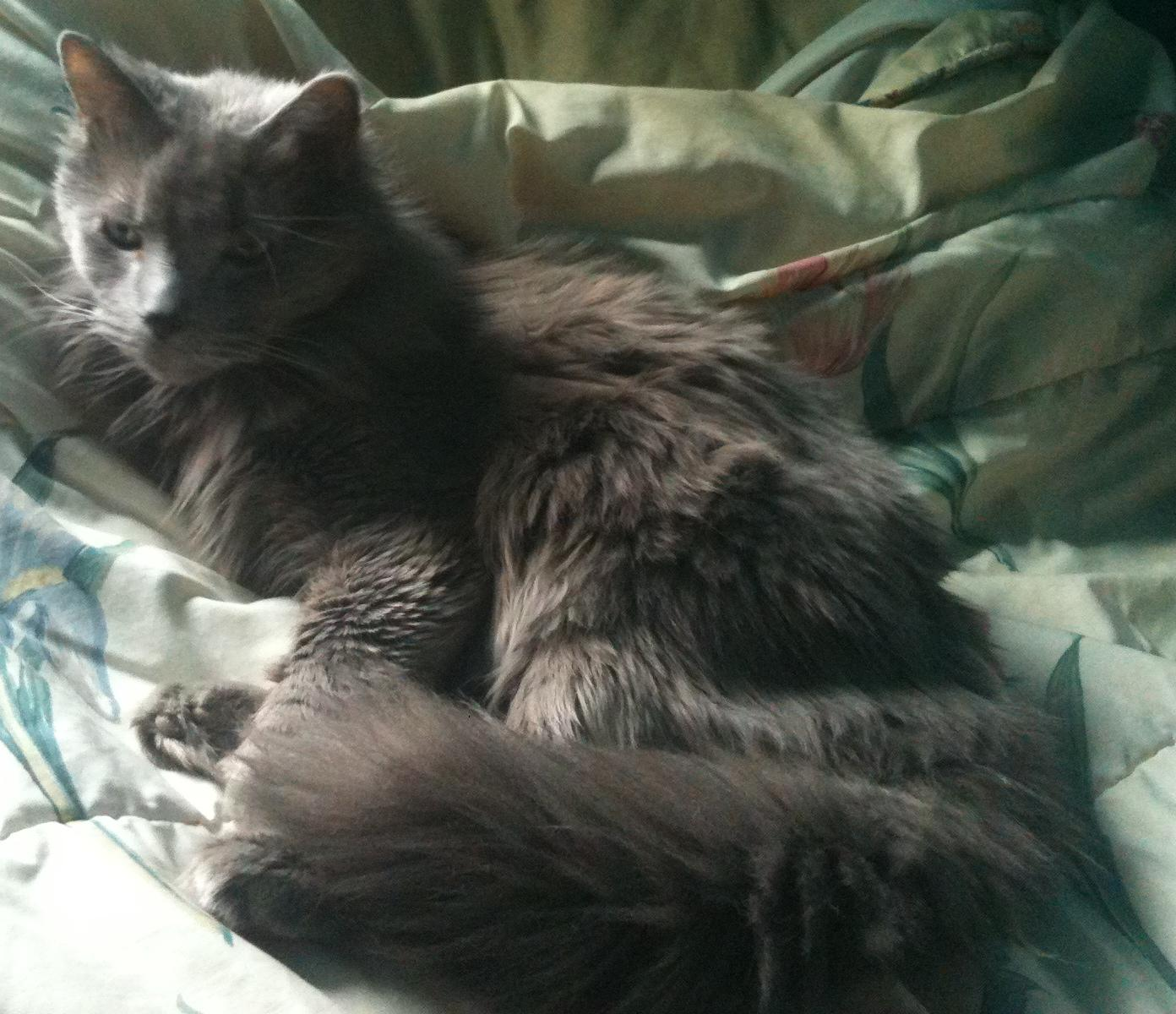 Nebelung at Ten Years of Age